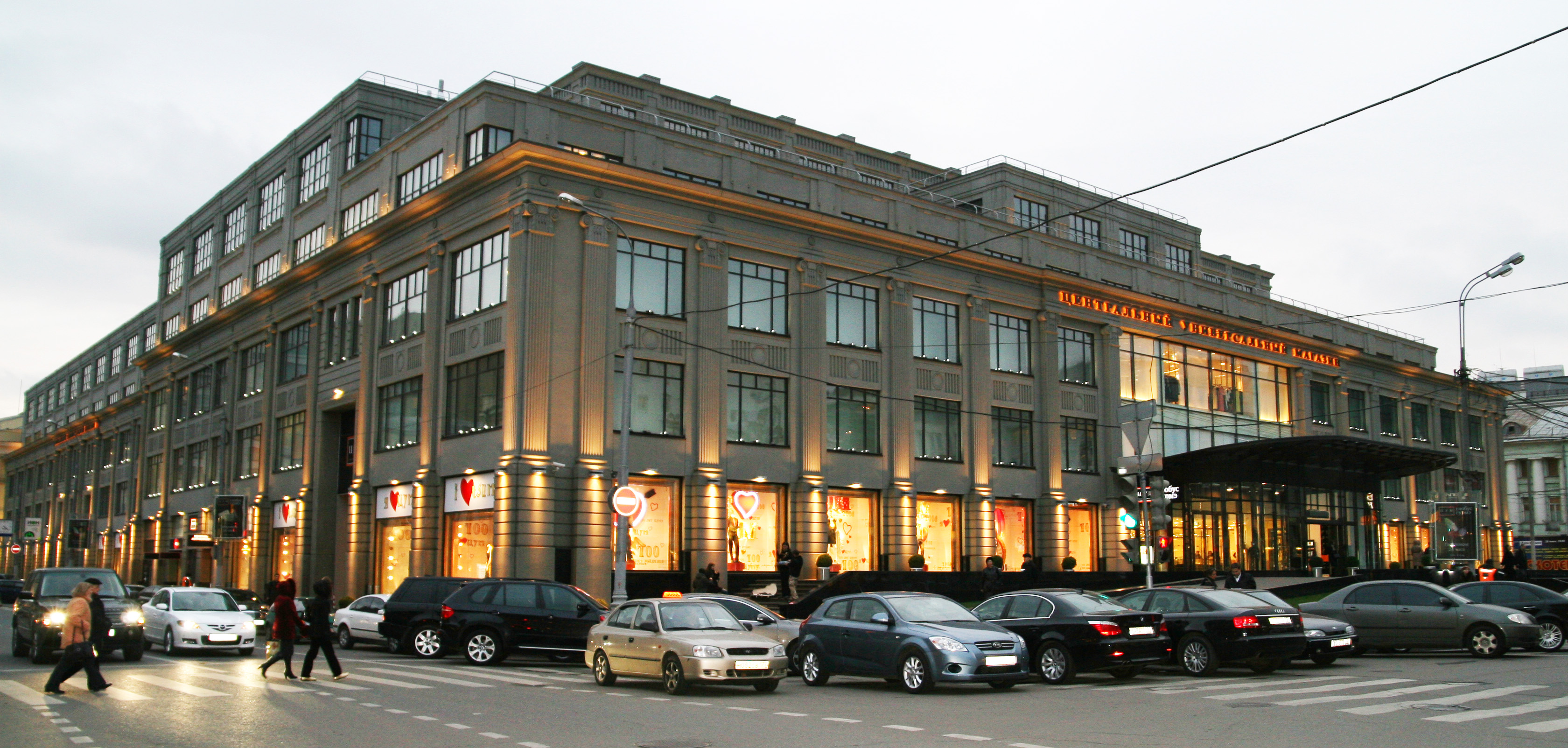 Moscow, Kuznetsky Most Street TSUM